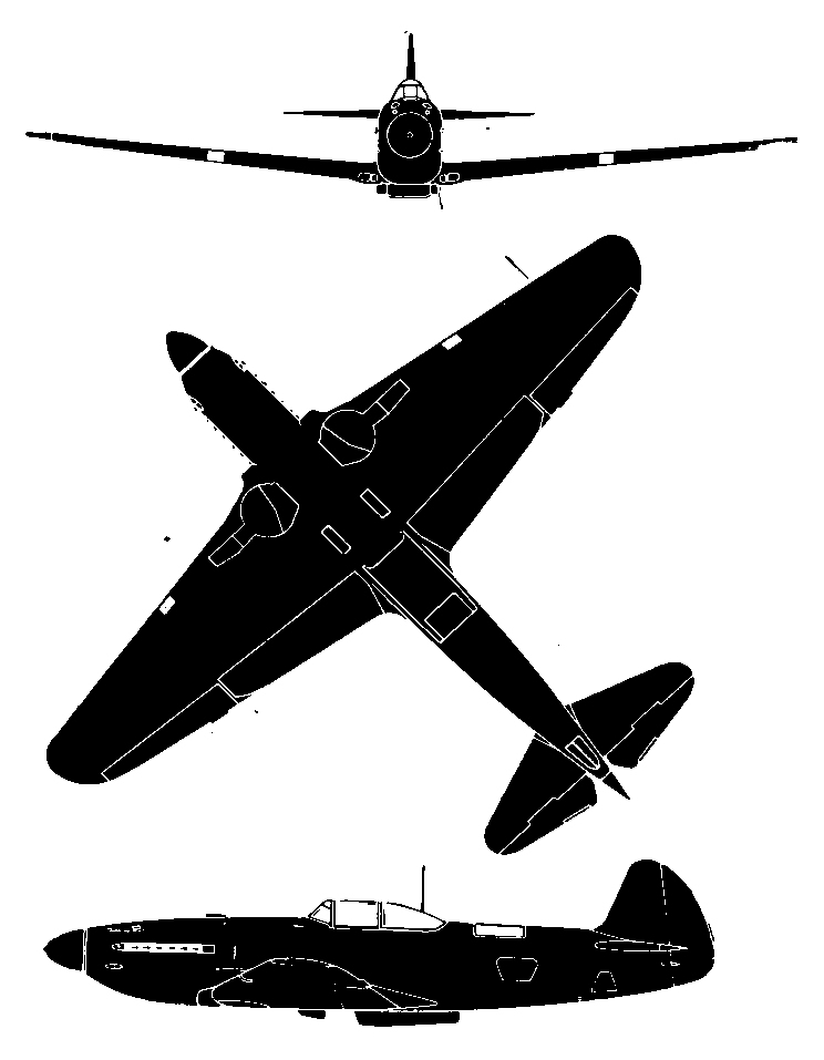 Silhouette of the Yak-9P. The World's Fighting Planes (William Green and Gerald Pollinger, McDonald: London 1954) used 55 Crown Copyright silhouettes provided by the Controller of H.M. Stationery. An acknowledgements section on page 6 of the book identifies them by page. This image is one of those and since the publication date is pre-1957 is in the public domain.